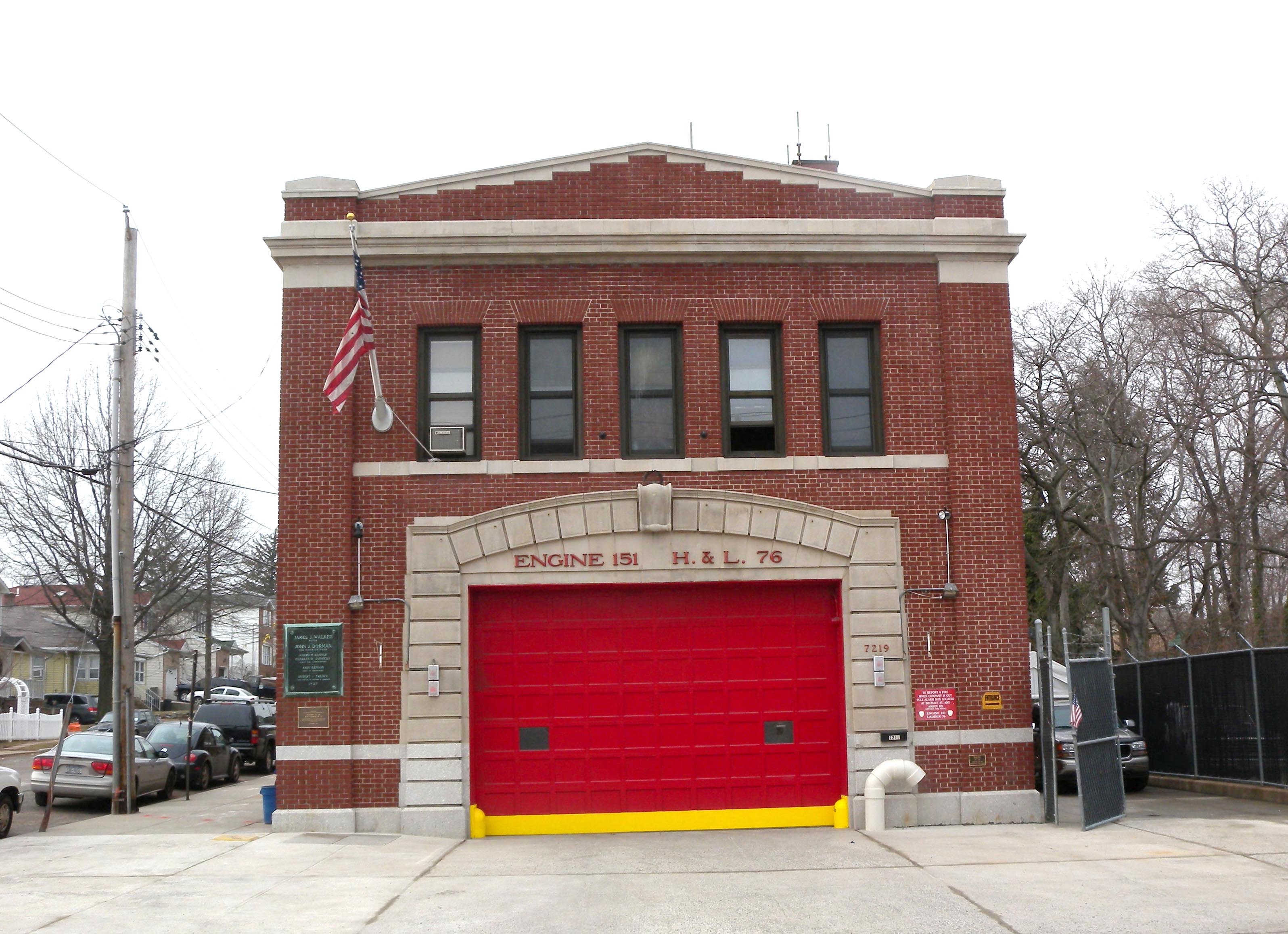 Looking north across Amboy Road at Engine 151 Hook & Ladder 76, 7219 Amboy Road in Tottenville, Staten Island on a cloudy afternoon.